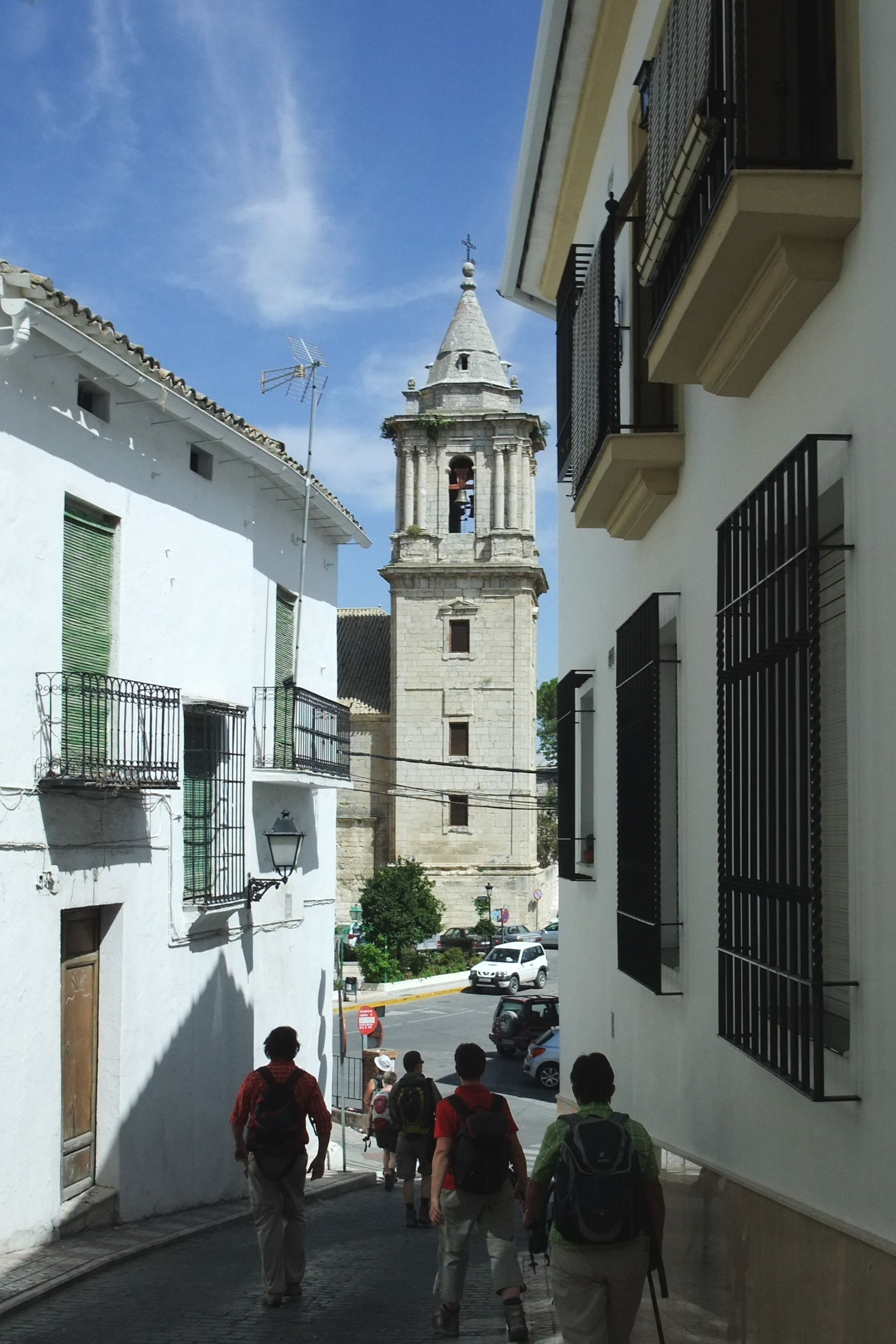 Church in Luque, Province Córdoba in Spain